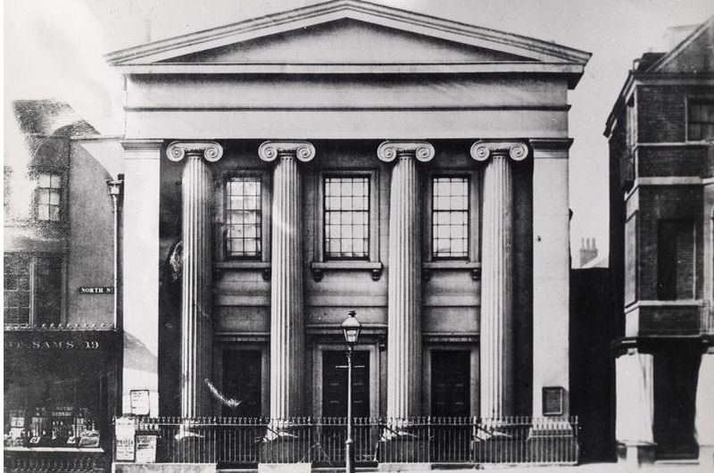 Façade of the Countess of Huntingdon's Chapel, North Street, Brighton, England, seen from the northeast from the junction with New Road. Photographed before rebuilding in 1871.